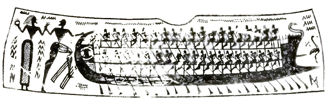 Woman, man and ship with oarsmen